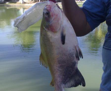 Picture of Tambaqui, took in a lake - Grajaú, MA.